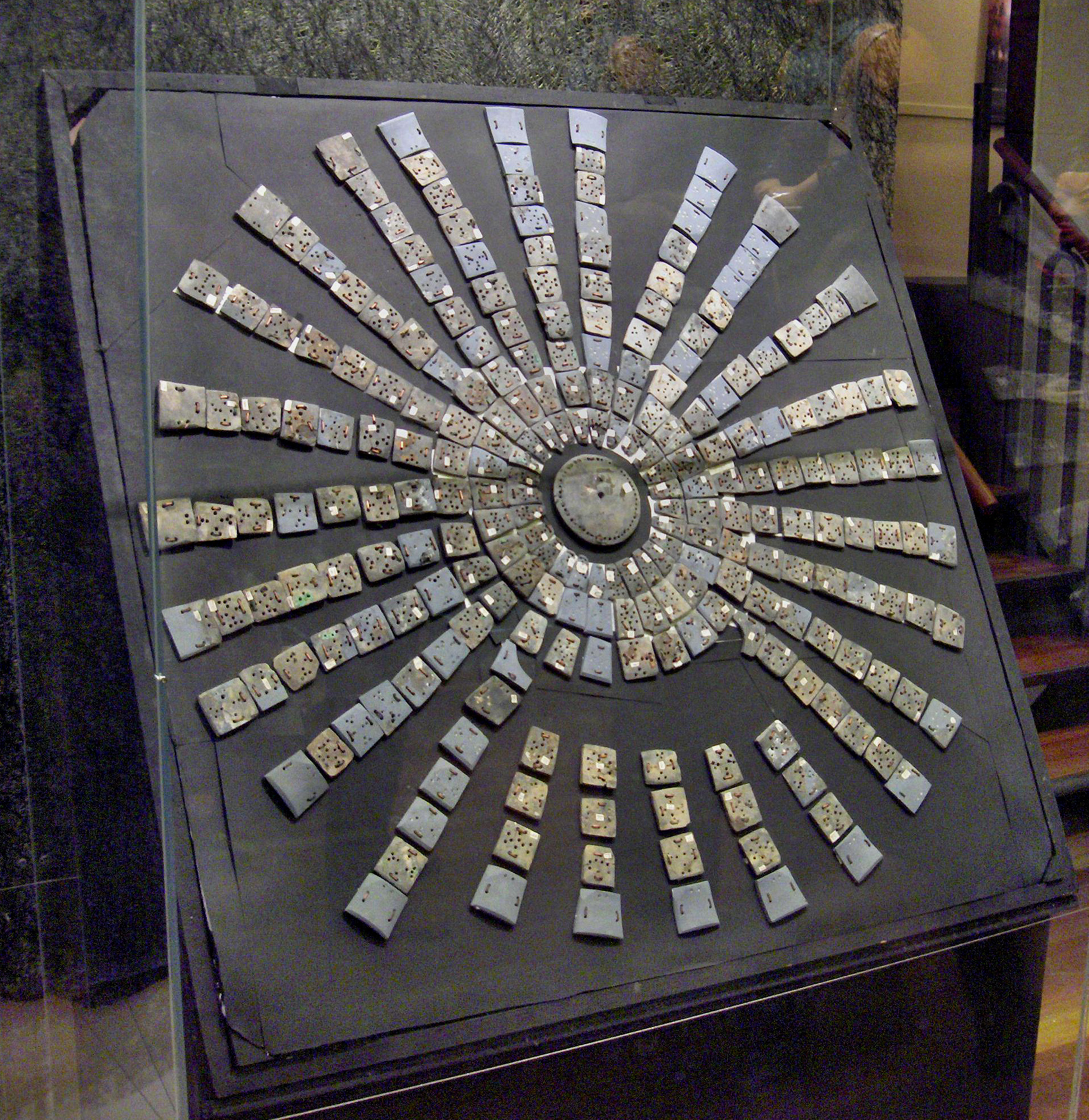 Stone platelets forming a helmet (weight : 3 kg); Lintong, Qin-dynasty